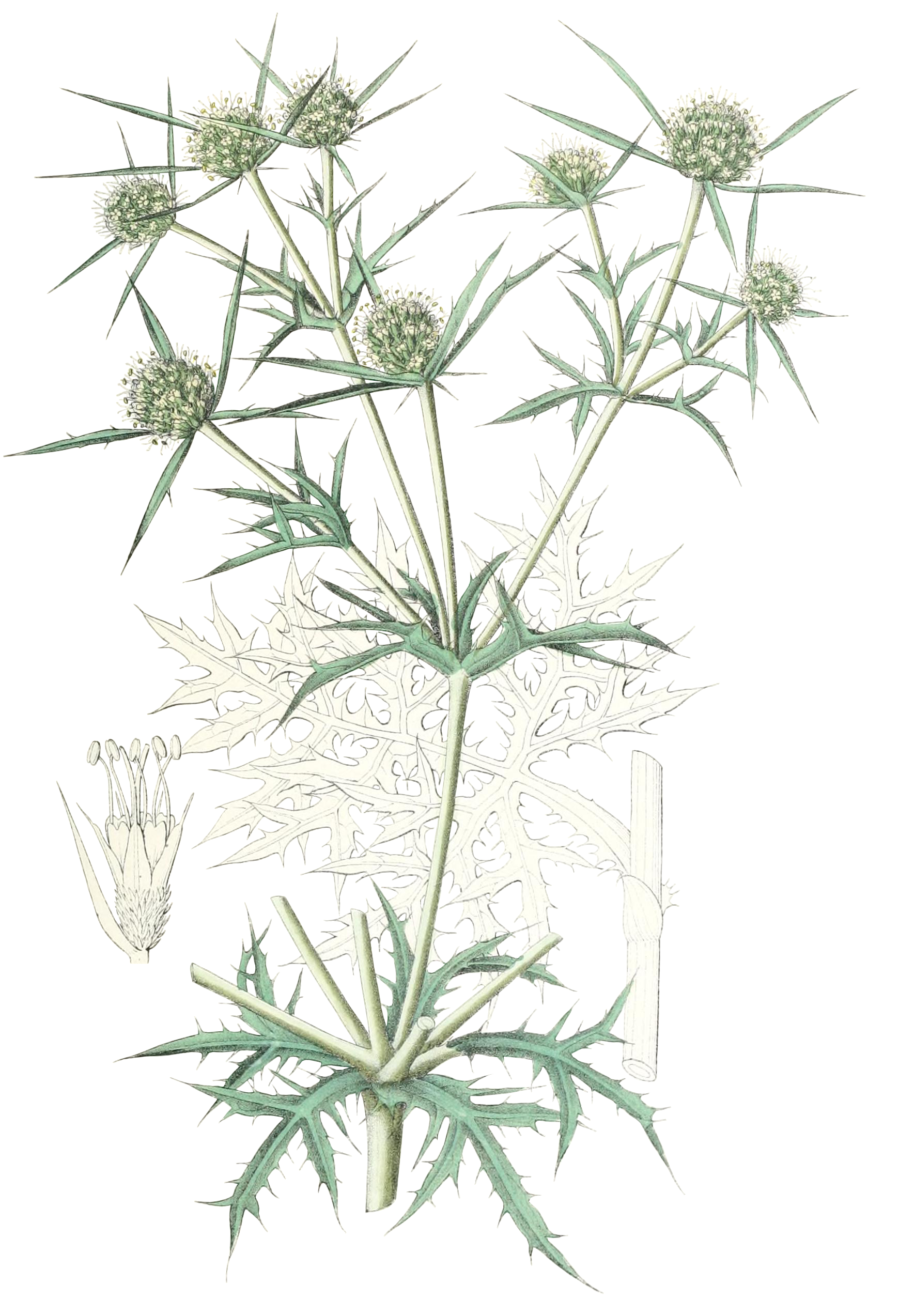 Illustration of Eryngium campestre Linné